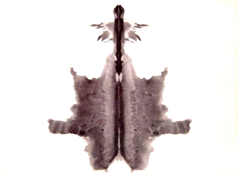 the sixth blot of the Rorschach inkblot test